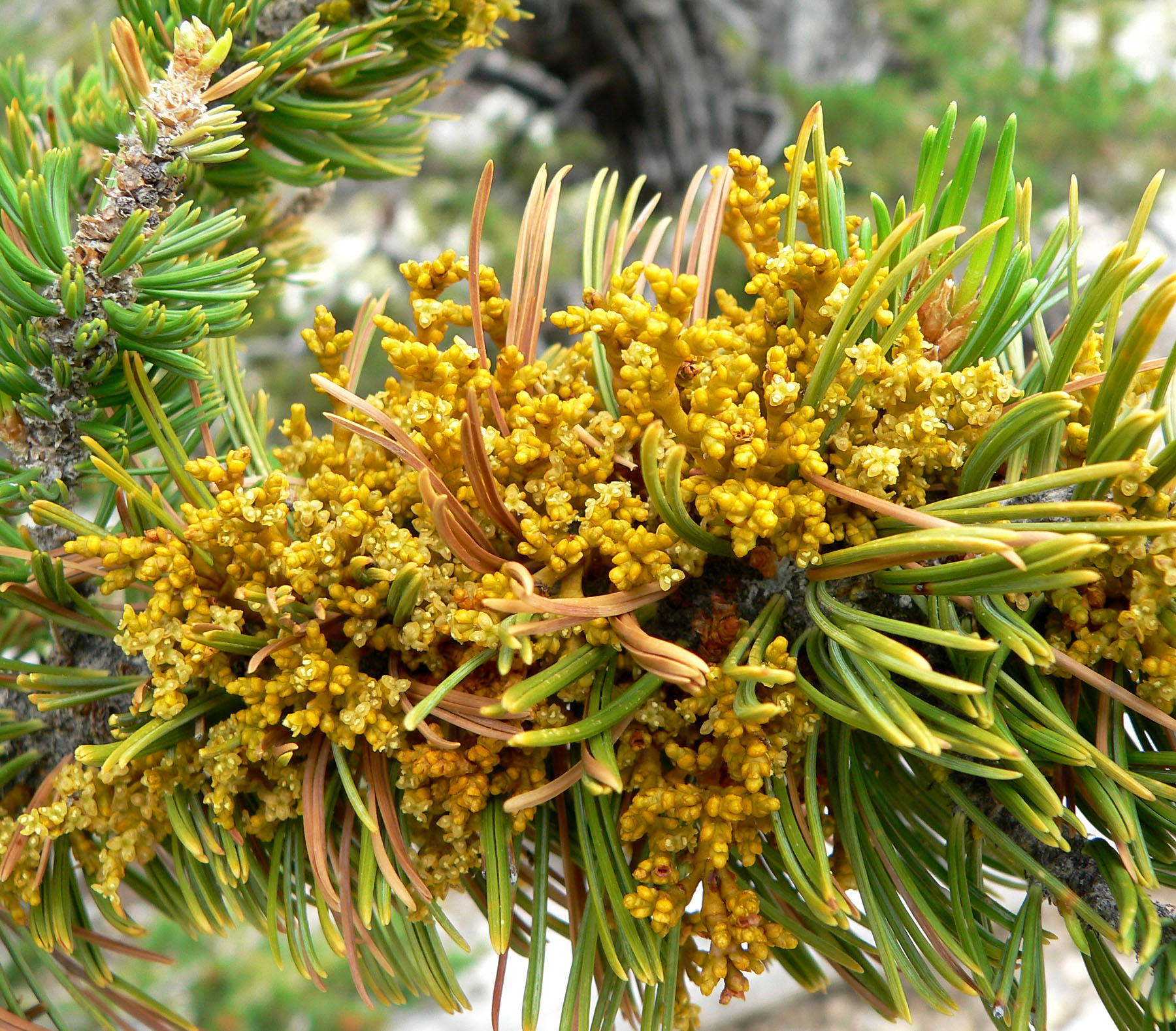 Arceuthobium cyanocarpum on Pinus longaeva, on North Loop trail east of Mummy Mountain, Spring Mountains, southern Nevada (elev. about 2900 m)